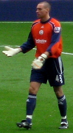 Stephen Bywater. Image cropped from original at flickr.